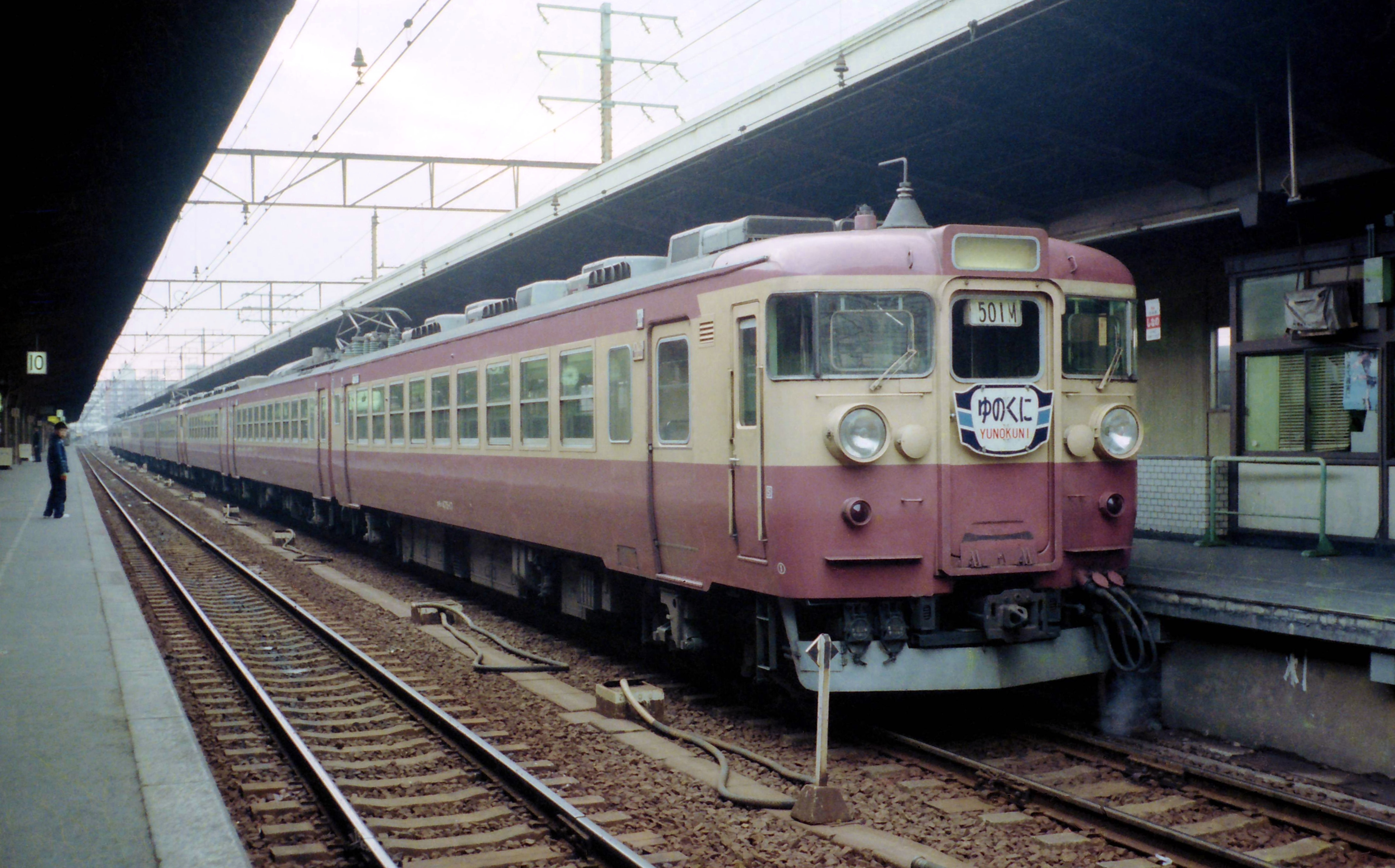 A JNR 457/475 series EMU formation on a Yunokuni express service at Osaka Station